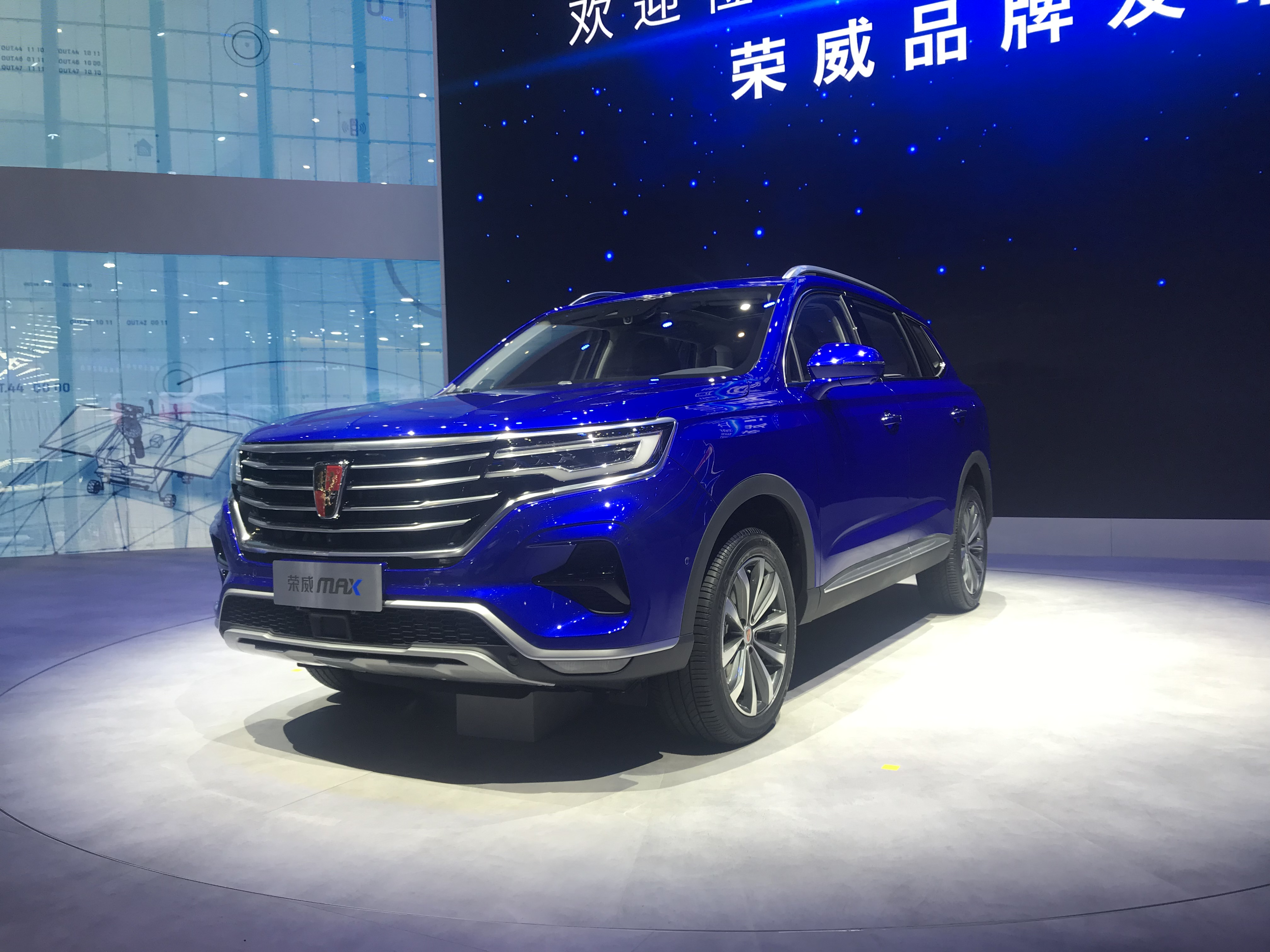 Roewe Max